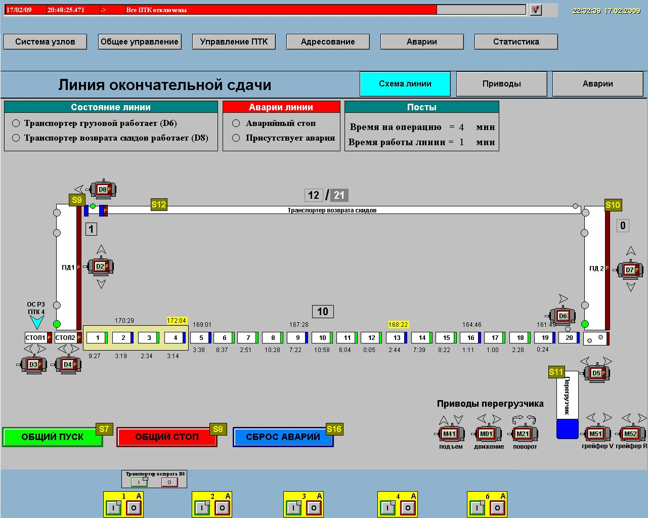 Screen of SIMATIC WinCC's technology line representation.